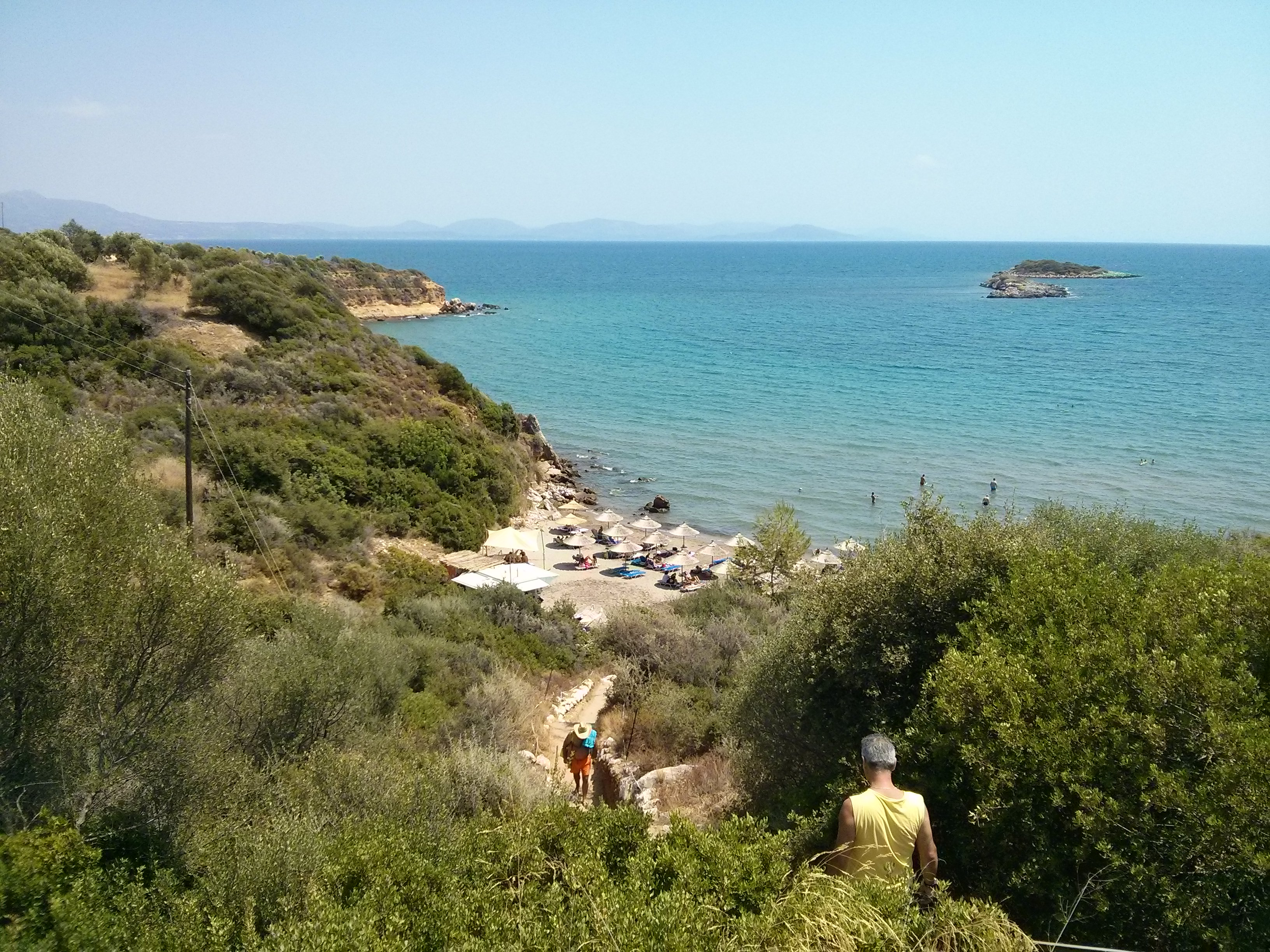 Gytheio – A small beach next to Trinisa